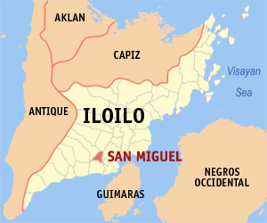 Map of Iloilo showing the location of San Miguel